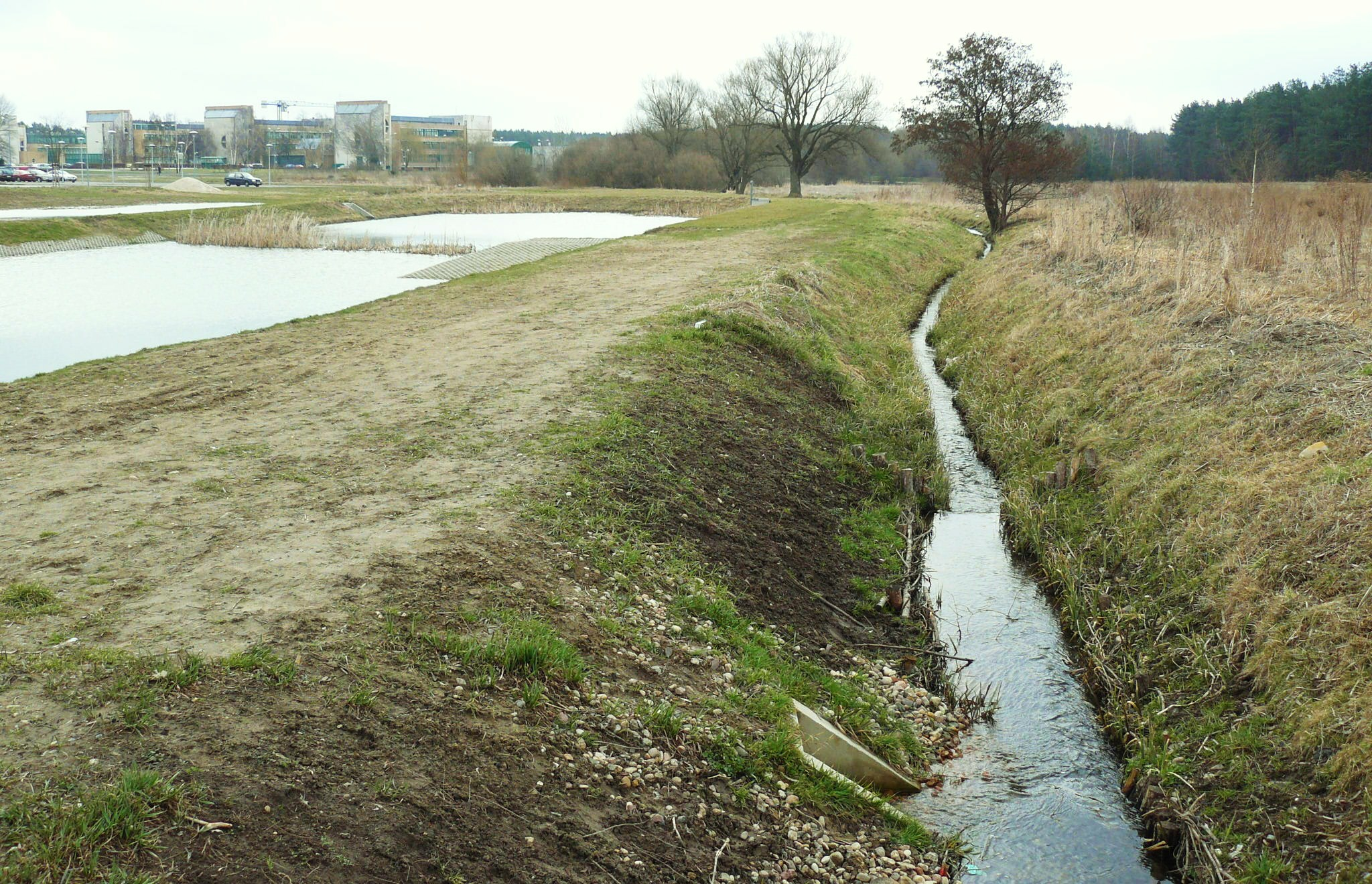 Morasko University Campus - Rozany Potok river, Poznan.